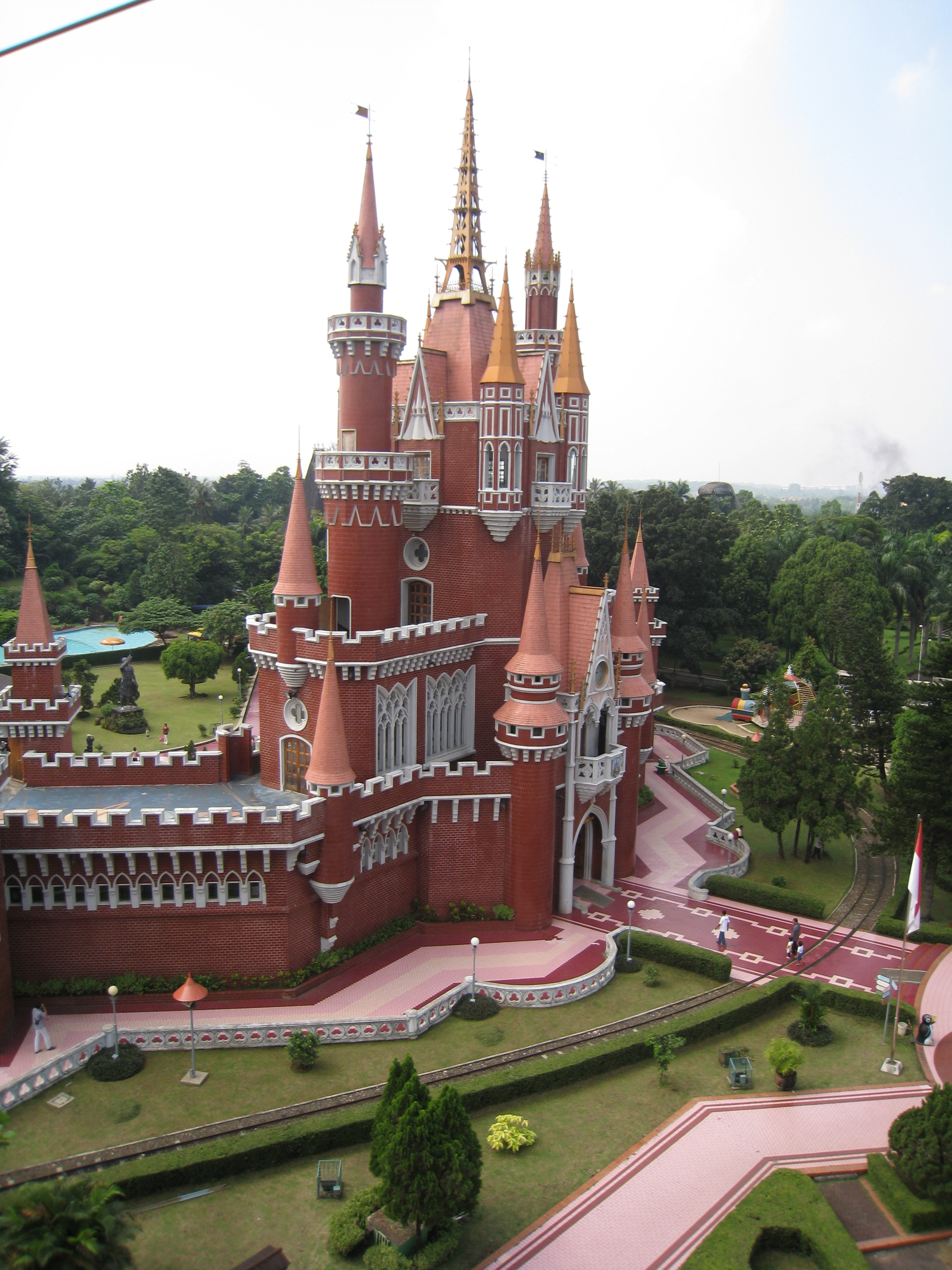 Istana Anak-anak Indonesia (Indonesian Children's Castle), Taman Mini Indonesia Indah, Jakarta.